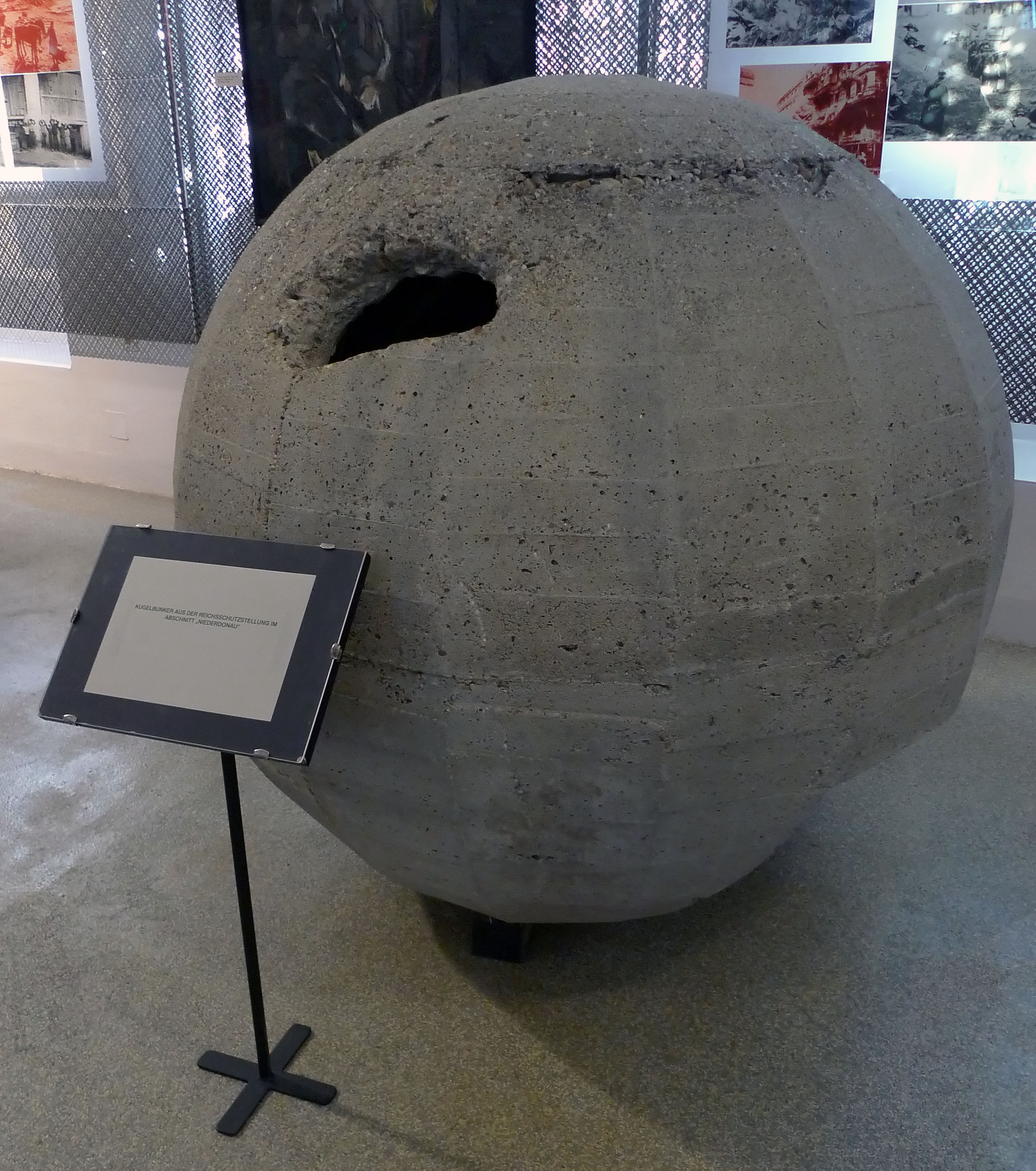 Spheric bunker (Kugelbunker) of the German Wehrmacht, World War II. Originally emplaced in the Reichsschutzstellung section Niederdonau. Heeresgeschichtliches Museum Wien.